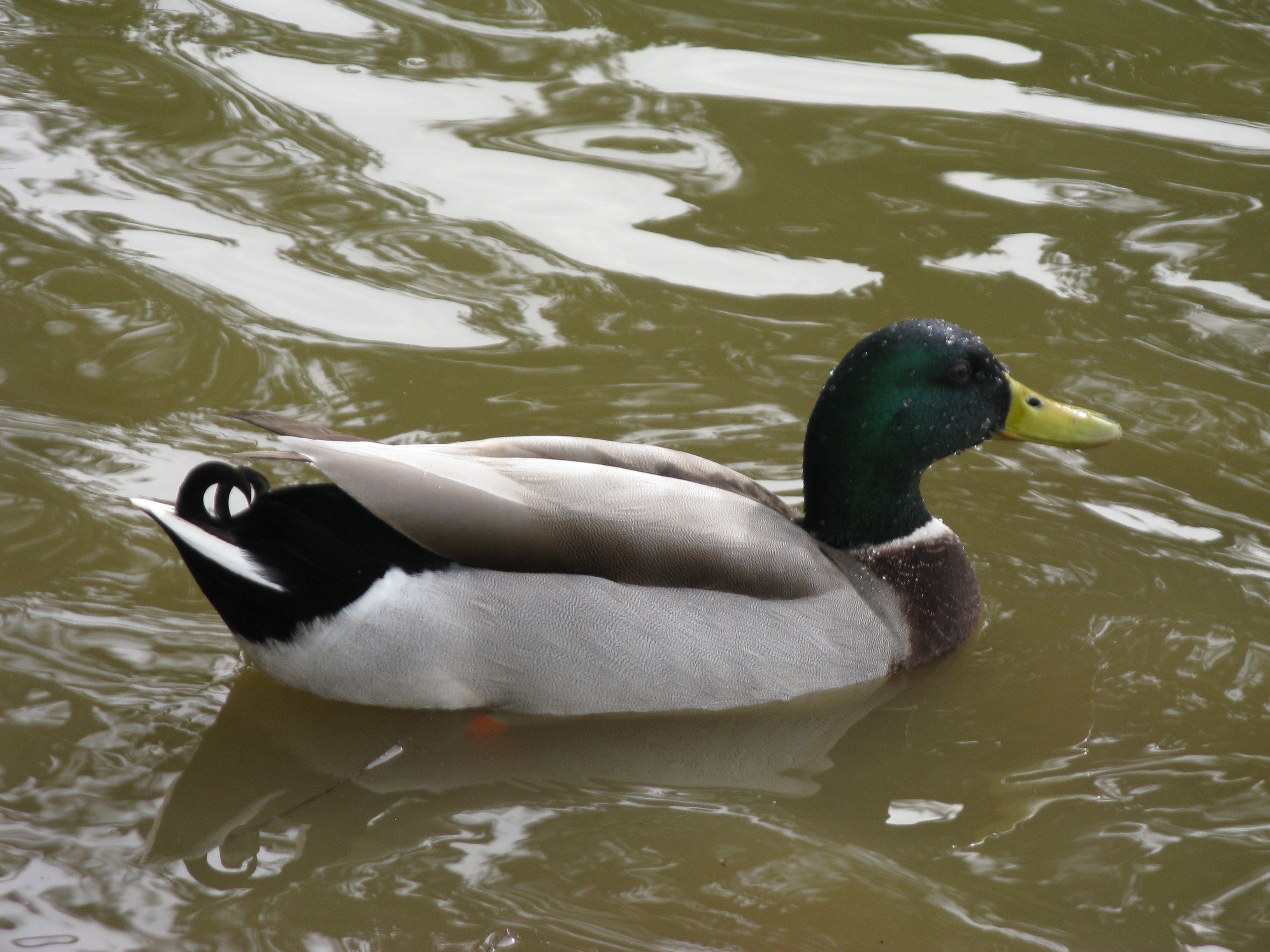 Male of mallards (close-up)